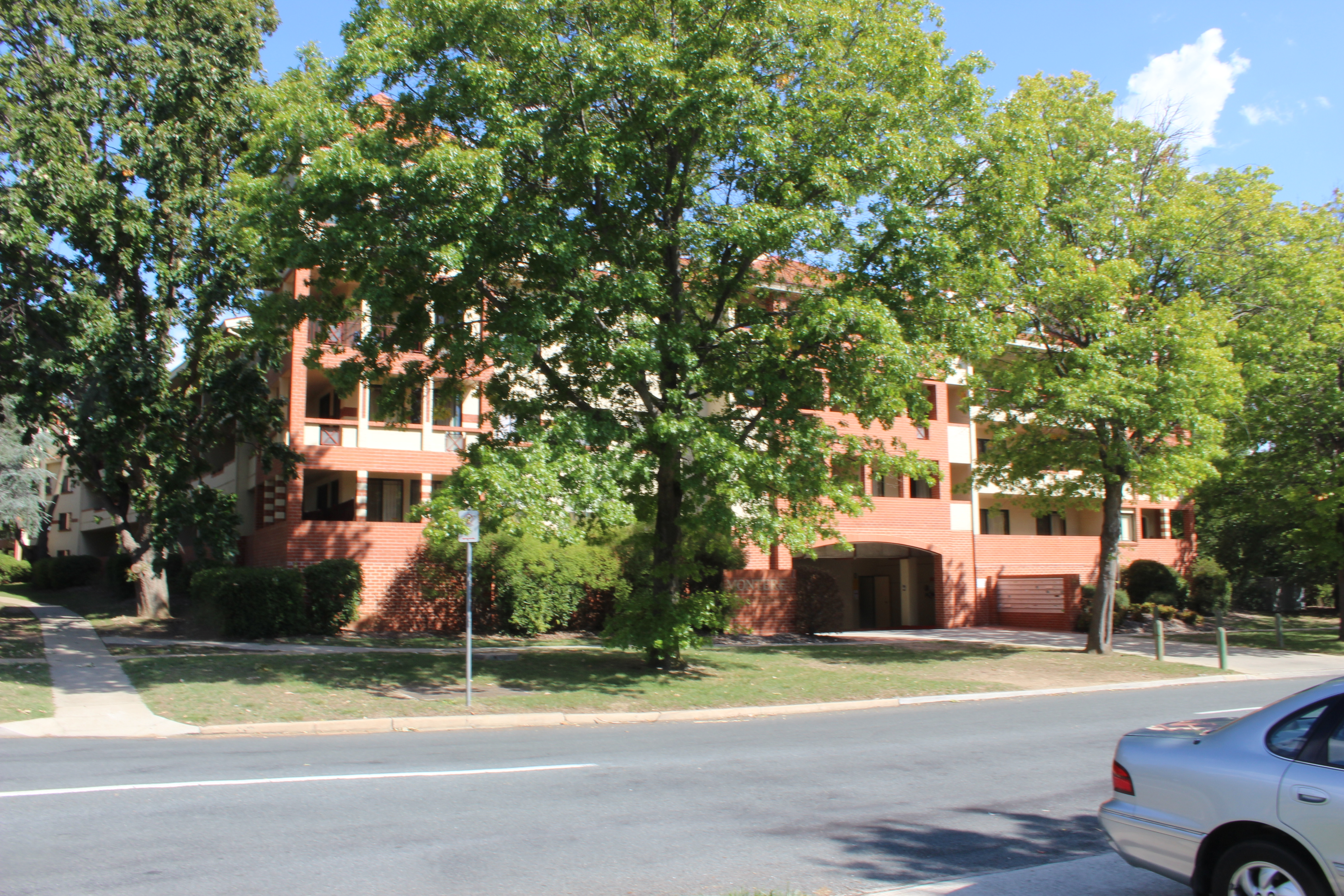 Monterey Apartments in Reid